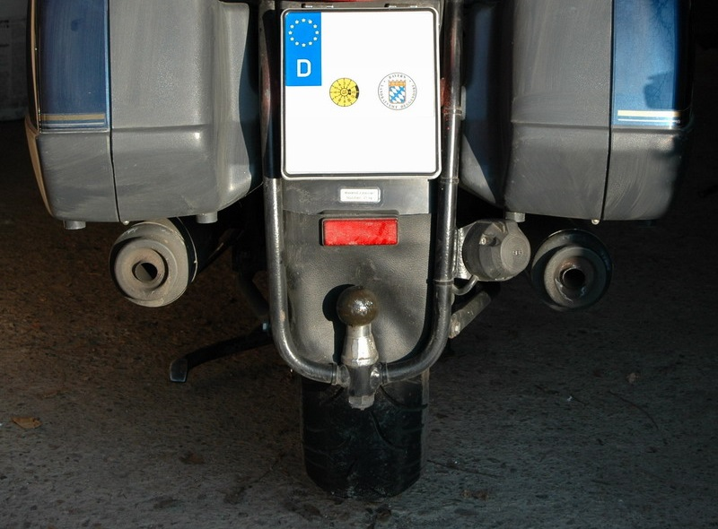 EZS hitch mounted at a german Honda ST 1100